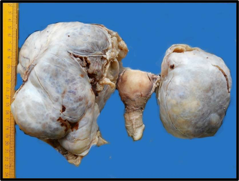 Uterus with bilateral ovarian neoplasm retaining the shape of ovary.